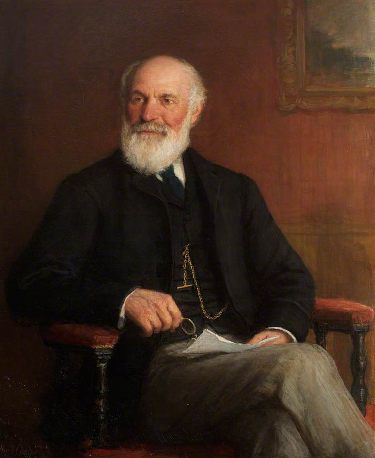 portrait of Samuel Holland, Esq., of Caerdeon (1803-1892); now in the collection of Gwynedd Archives Service. For evidence for attribution, see [1].